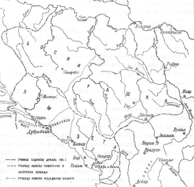 Constantine Bodin's Serbia, map by Stanoje Stanojević (1874–1937)